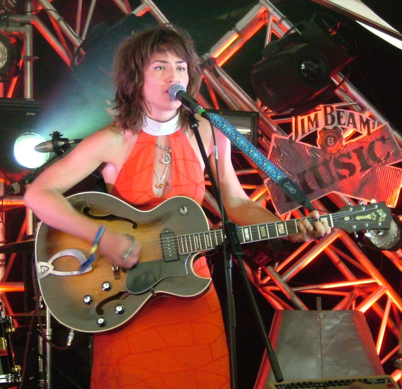 Joan Wasser performing at the Summer Sundae festival, Leicester, England, 2006. Author: Mike Higgott